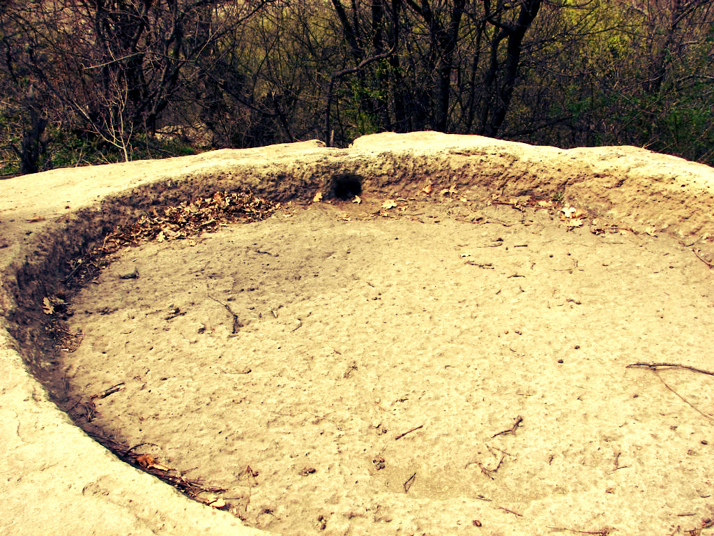 Kovil BG 1